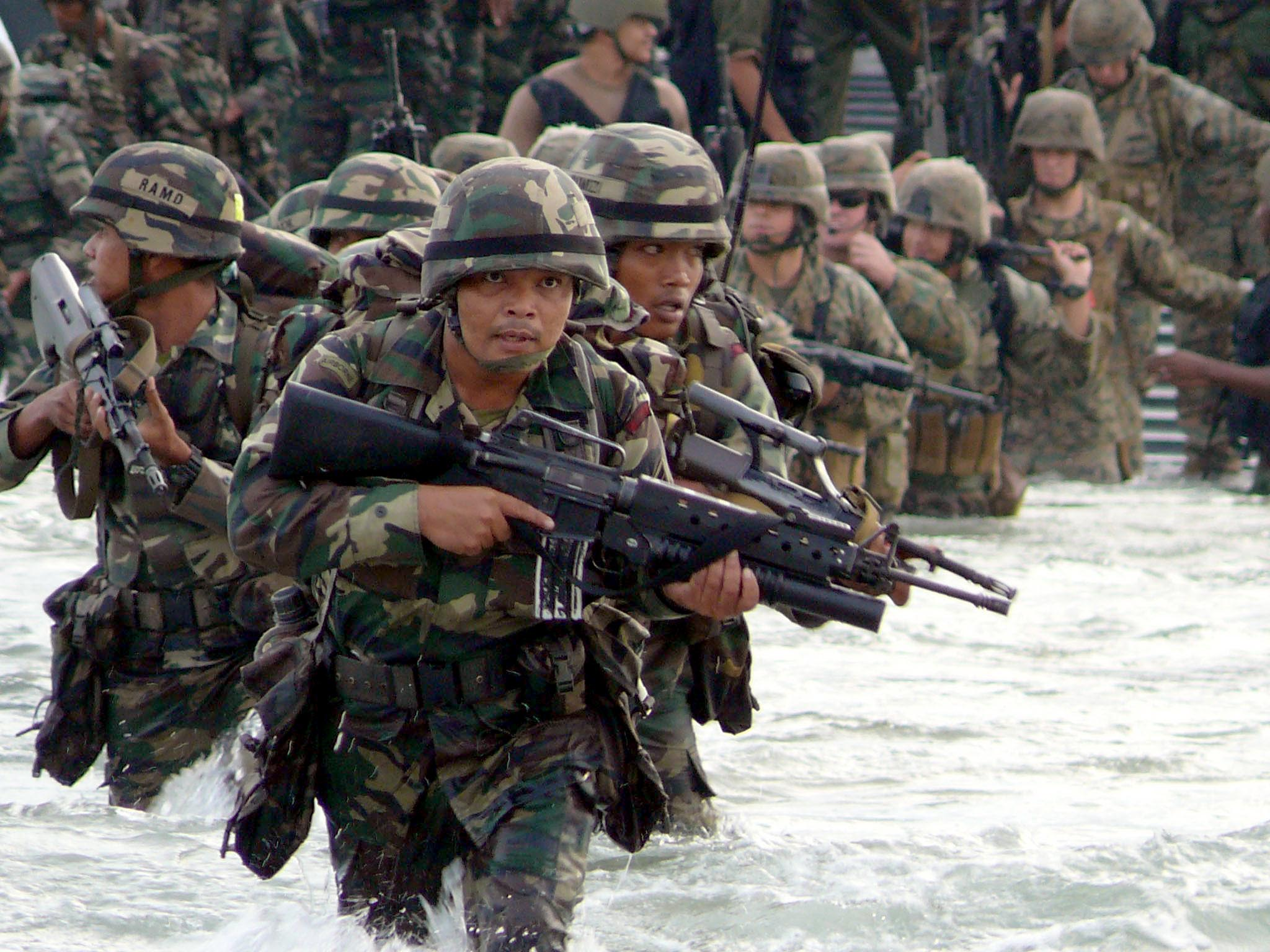 080715-N-4431B-568 BUKIT TIOMAN DARAT, Malaysia (July 15, 2008) Malaysian Army Rangers and Marines assigned to Combat Assault Co., 3rd Marine Regiment, wade ashore from Landing Craft Unit (LCU) 1634 during a Cooperation Afloat Readiness and Training (CARAT) 2008 amphibious assault exercise. CARAT is an annual series of bilateral maritime training exercises involving the U.S. and several Southeast Asian nations designed to build relationships and enhance operational readiness. U.S. Navy photo by Cmdr. Daryl Borgquist (Released)